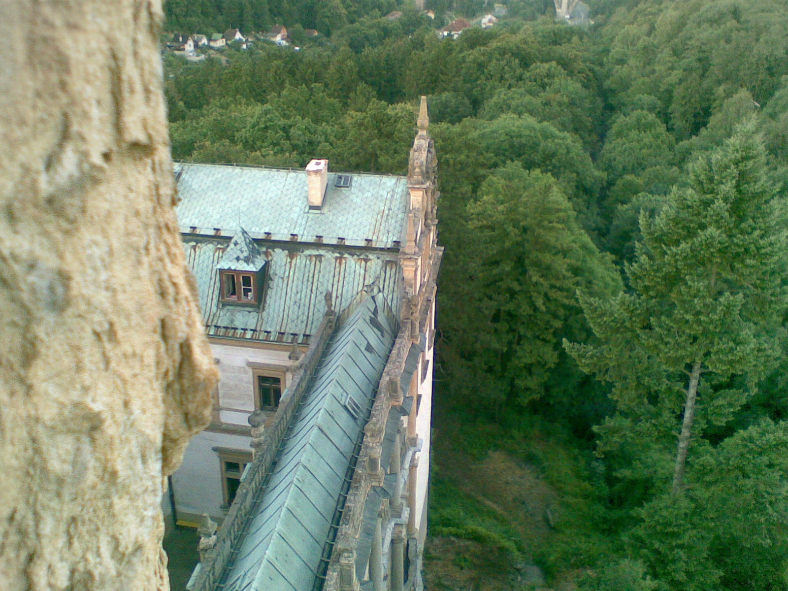 RoadFromTower